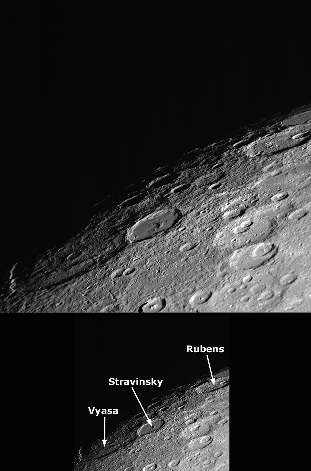 Image Mission Elapsed Time (MET): 131774338 Instrument: Narrow Angle Camera (NAC) of the Mercury Dual Imaging System (MDIS) Resolution: 580 meters/pixel (0.36 miles/pixel) Scale: Stravinsky crater is 190 kilometers in diameter (120 miles) Spacecraft Altitude: 23,000 kilometers (14,000 miles) Of Interest: By examining the characteristics of craters and their relationships to each other, geologists are able to unravel the history of Mercury. This image shows a northern portion of Mercury’s surface, looking at the terminator (the transition from the sunlit dayside to the dark night side of the planet). The crater in the lower left, Vyasa, has a rough floor, with other craters superimposed onto it, indicating that this crater is relatively old. In contrast, the neighboring crater, Stravinsky, has a much smoother floor and appears to overlap the rim of Vyasa, suggesting that this crater is relatively younger. These craters appear to be aptly named to support this relative age relationship; Vyasa is named for the ancient Indian poet from about 1500 BC, while Igor Stravinsky was a 20th century Russian-born composer. The nearby crater Rubens, named for the 17th century Flemish painter, may indeed represent an event intermediate in time between Vyasa and Stravinsky.